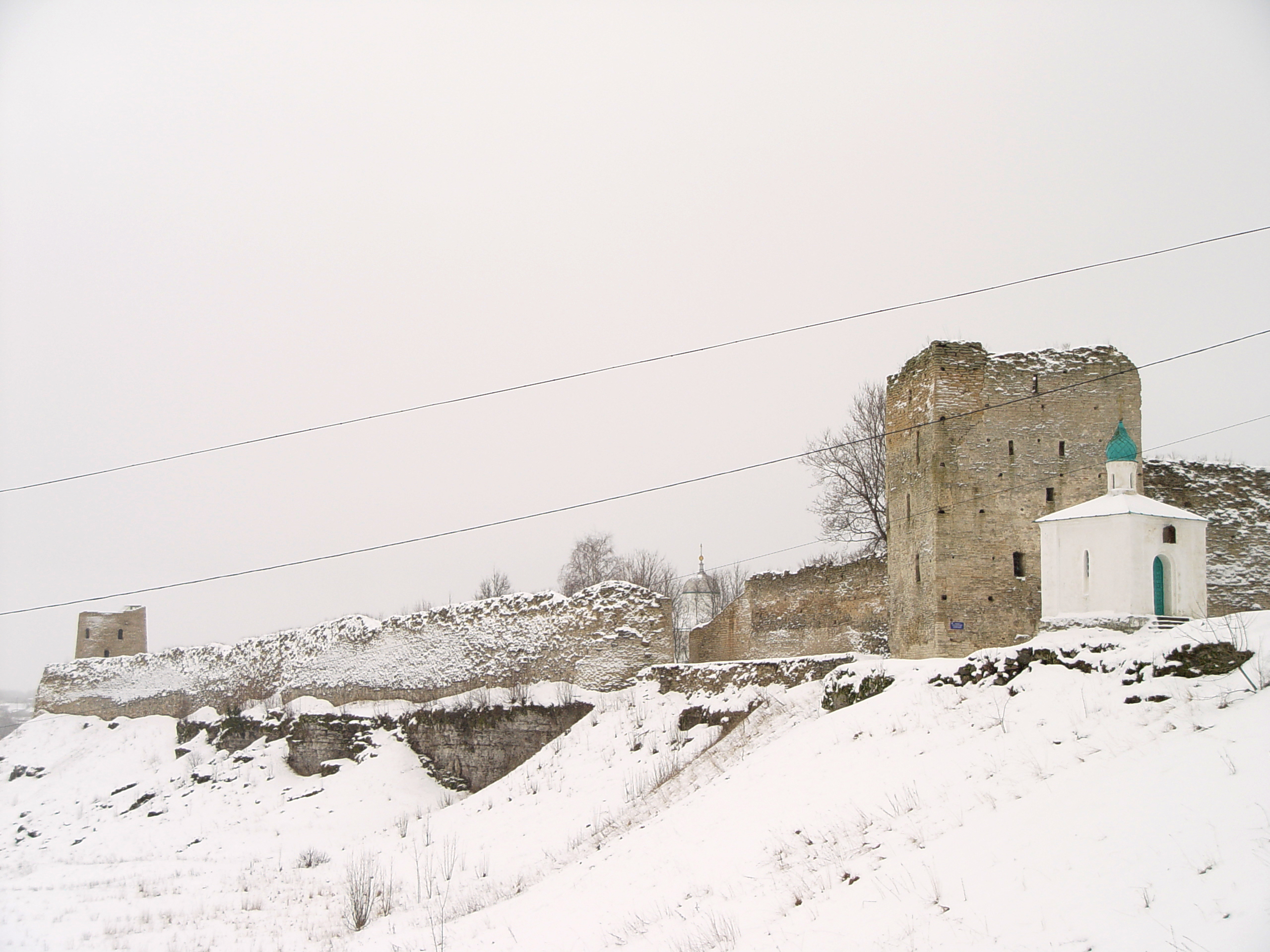 View of Izborsk fortress in winter